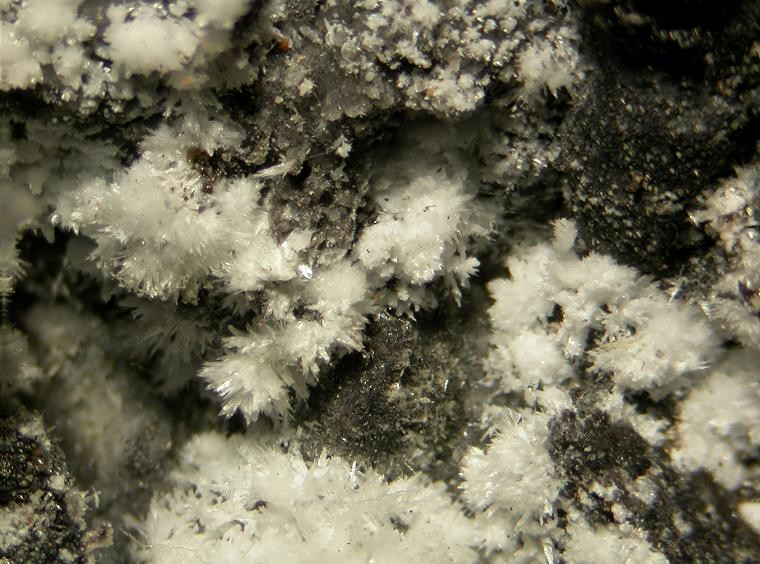 Wollastonite Locality: Libušin, Kladno, Central Bohemia Region, Bohemia (Böhmen; Boehmen), Czech Republic White acicular xls of Wollastonite. Field of view 8 mm. Depth of field is achieved with CombineZM. Specimen and photo Leon Hupperichs.